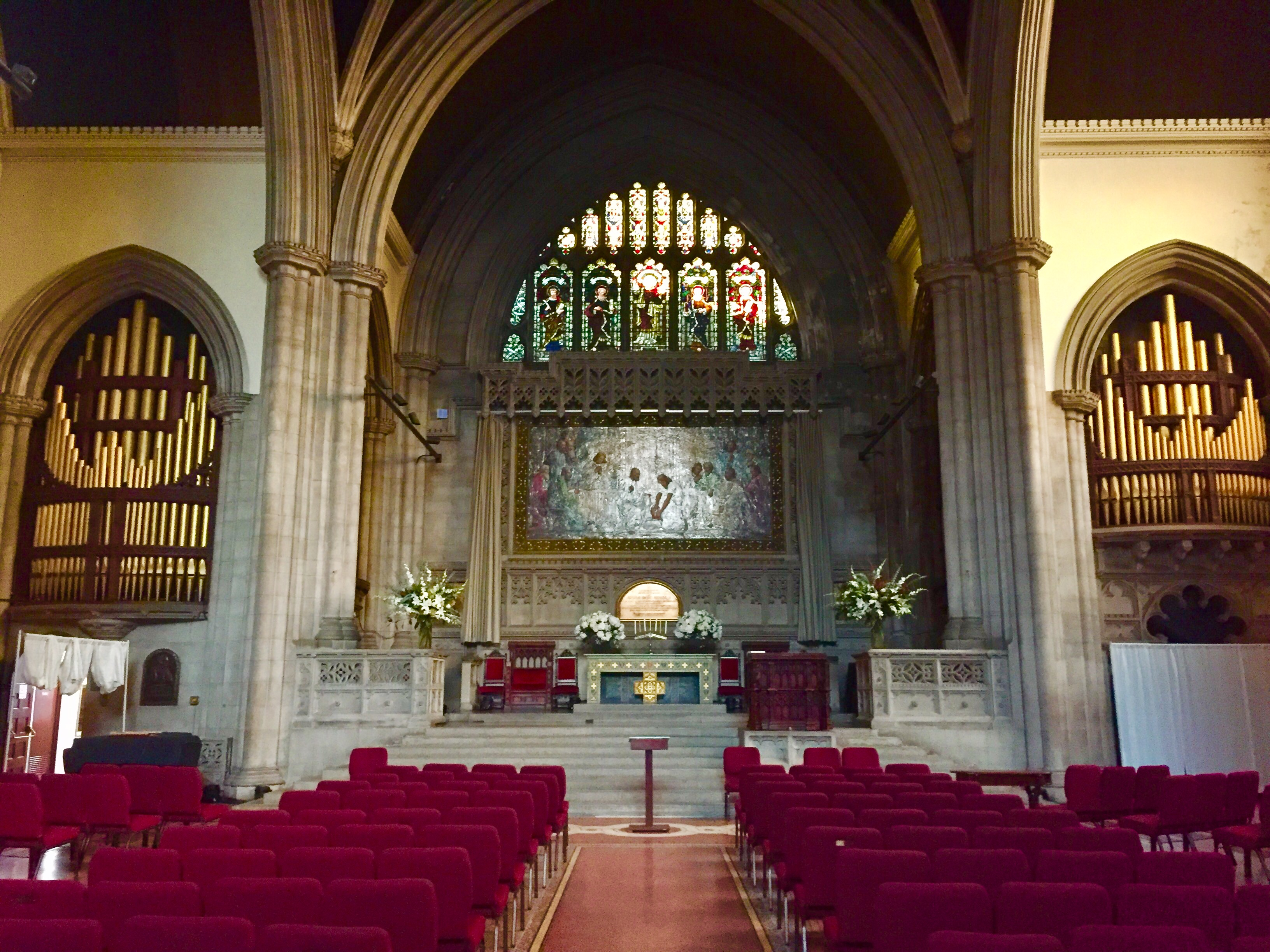 Interior Fourth Universalist Front